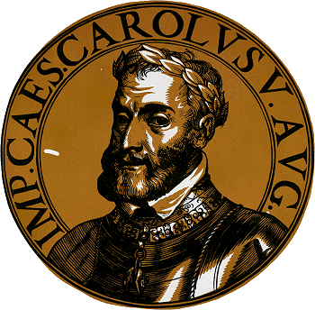 Charles V, Holy Roman Emperor (engraving)